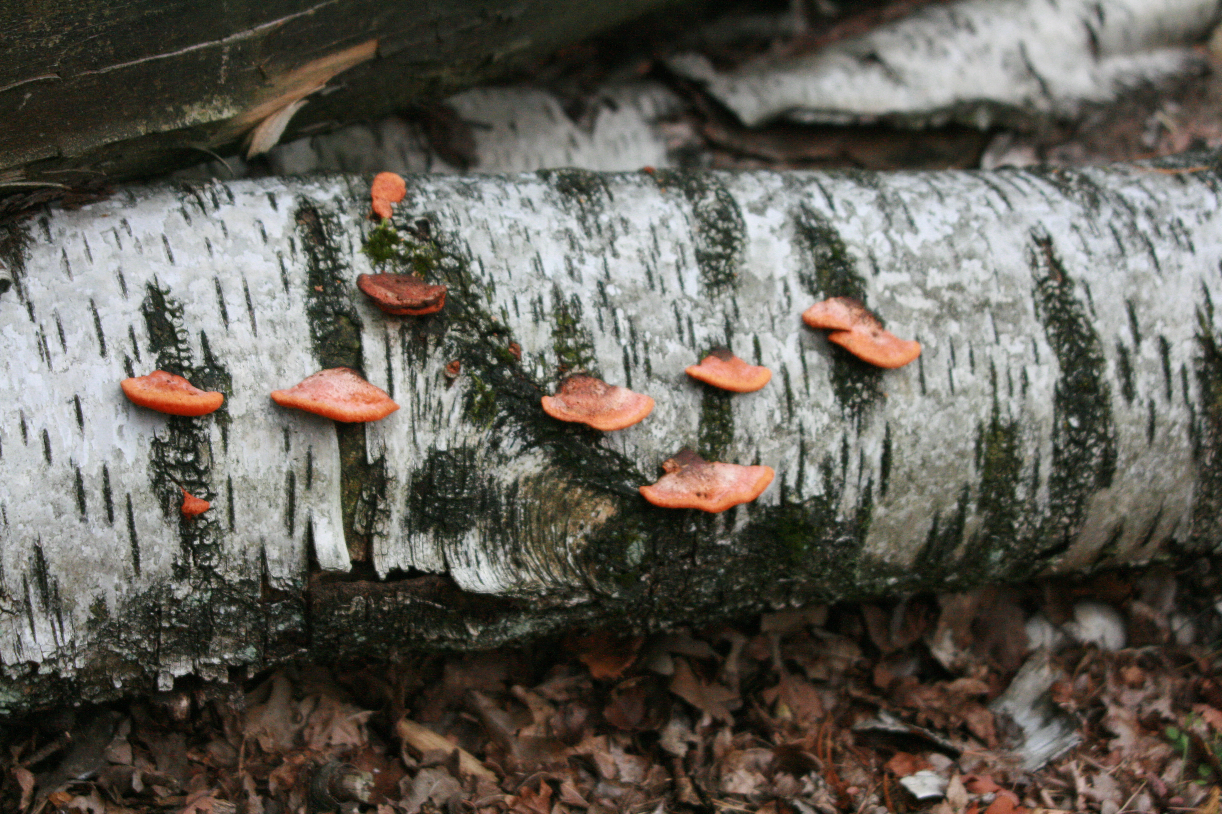 Pycnoporus cinnabarinus